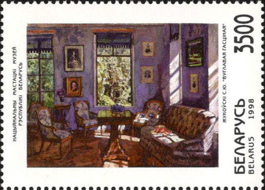 Почтовая марка Республики Беларусь.